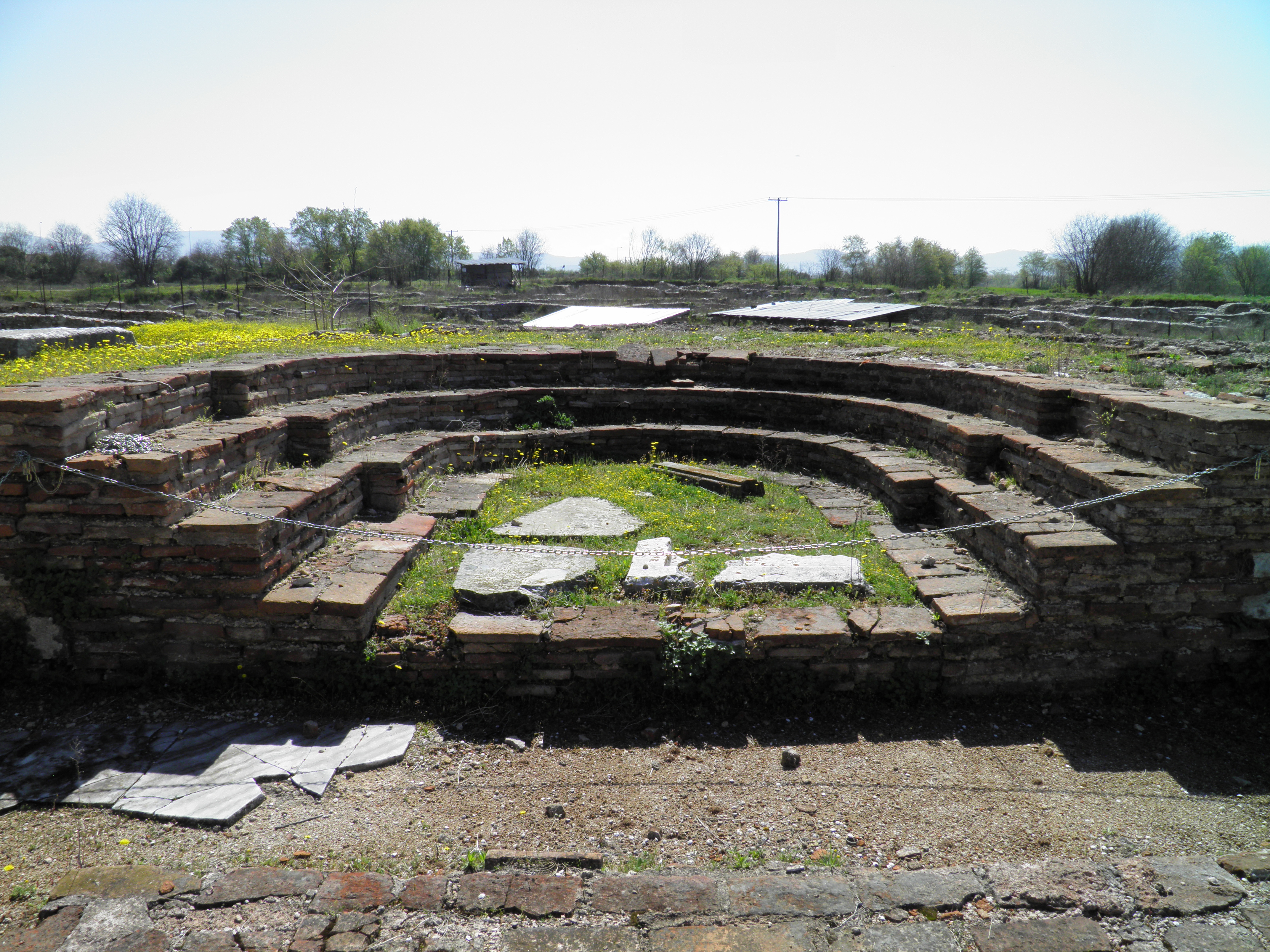 The Octagon, Philippi